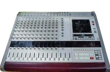 AKAI MG1214 14 track (12 for vocals and instruments)